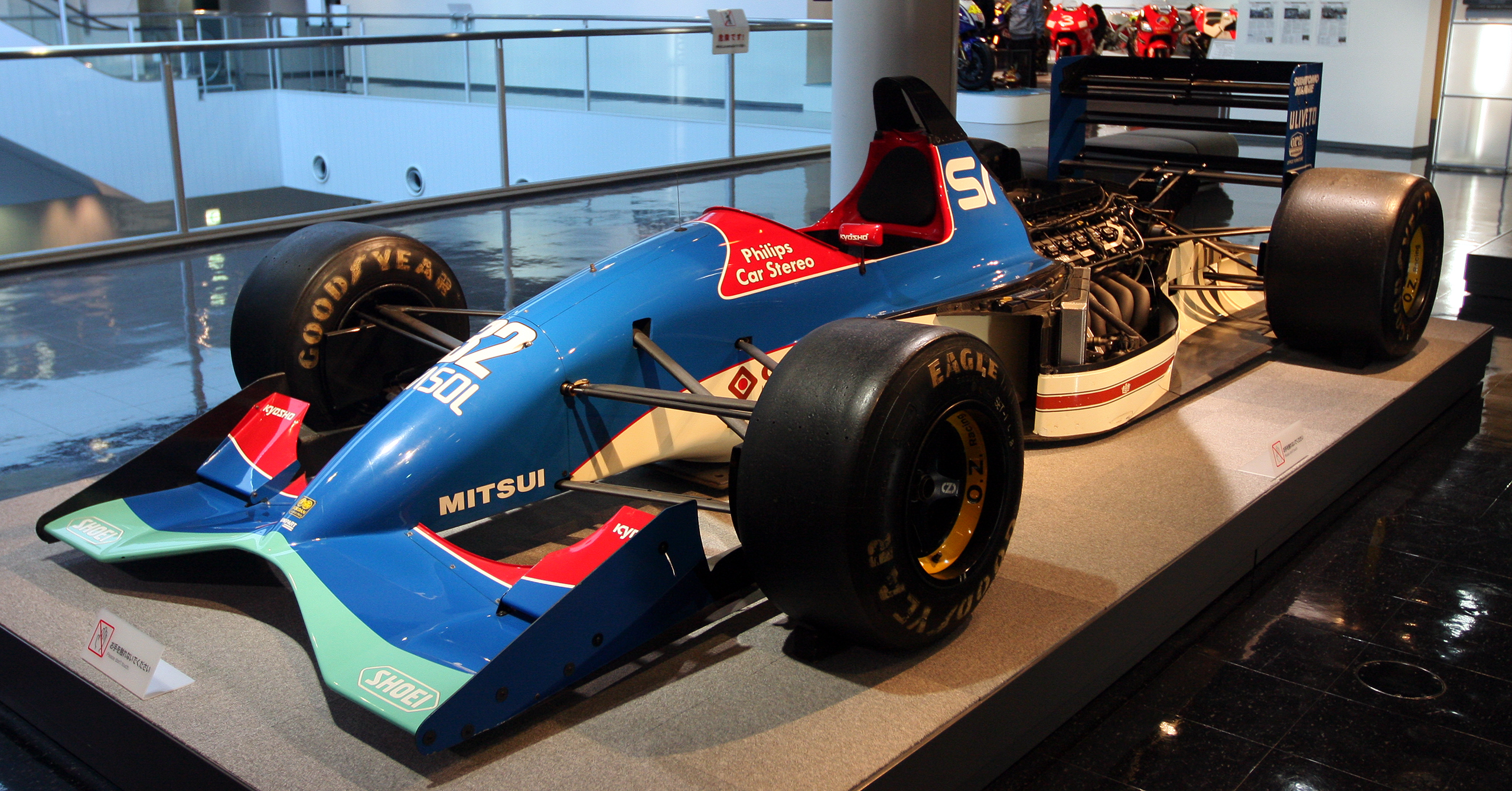 The Jordan 191Y (1992 livery)